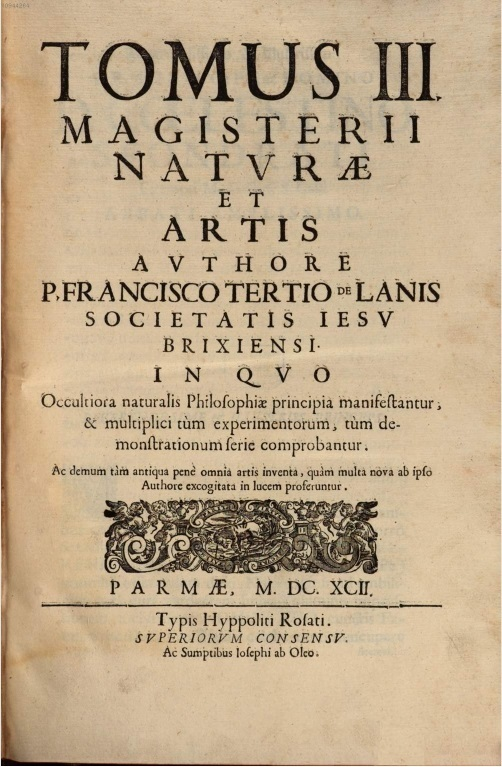 Titelpage of Lana's Prodrom ... of 1692